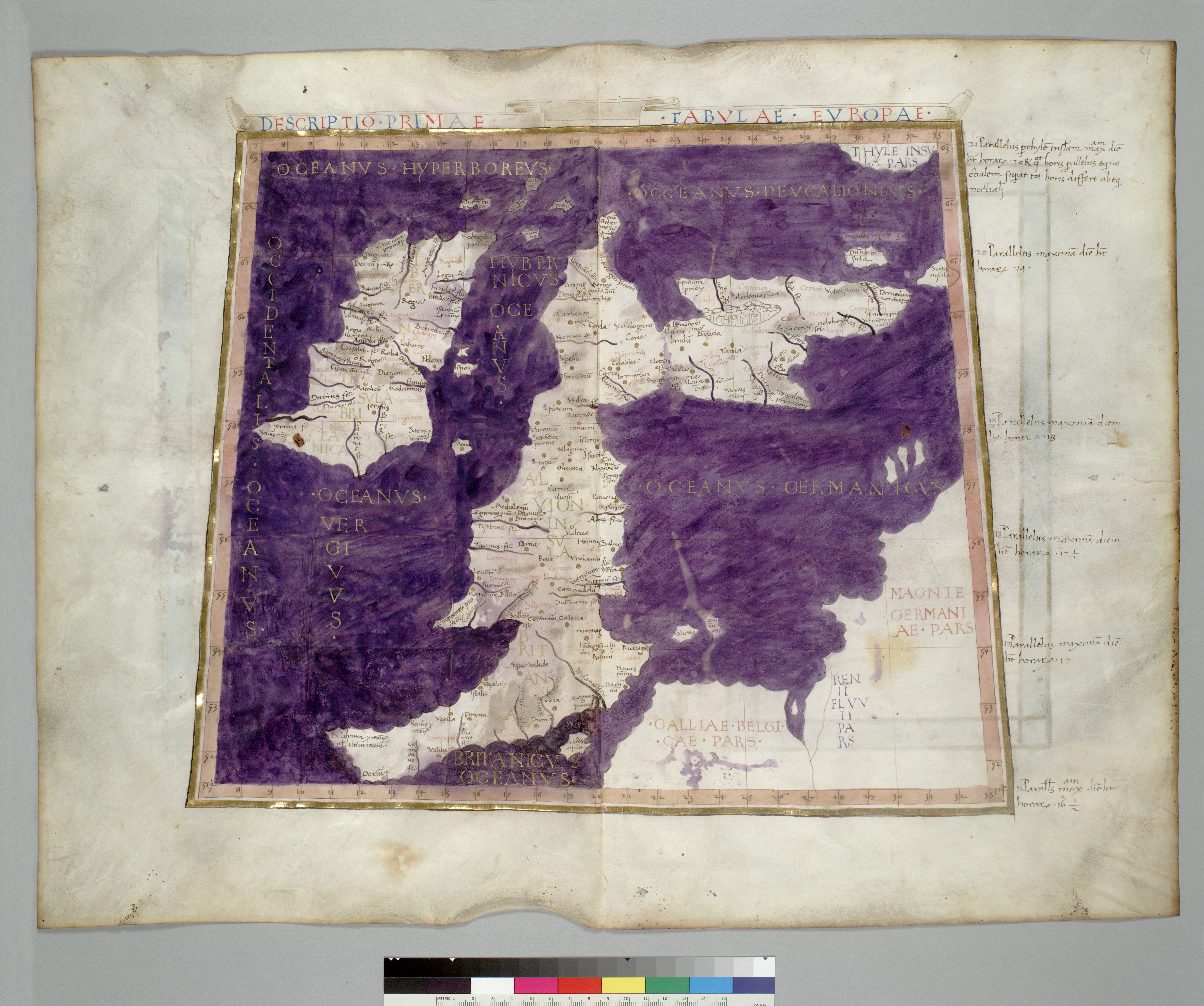 Ptolemy's 1st European Map (Descriptio Primae Tabulae Europae): Albion (Great Britain) and Hibernia (Ireland). Note that the source claims that this is from Berlinghieri's Seven Days of Geography, but that work was in Italian and used Marinus's equirectangular projection rather than Ptolemy's trapezoidal one. The work seems to have been mislabeled at some point, or maps from another Ptolemy added to the Berlinghieri.